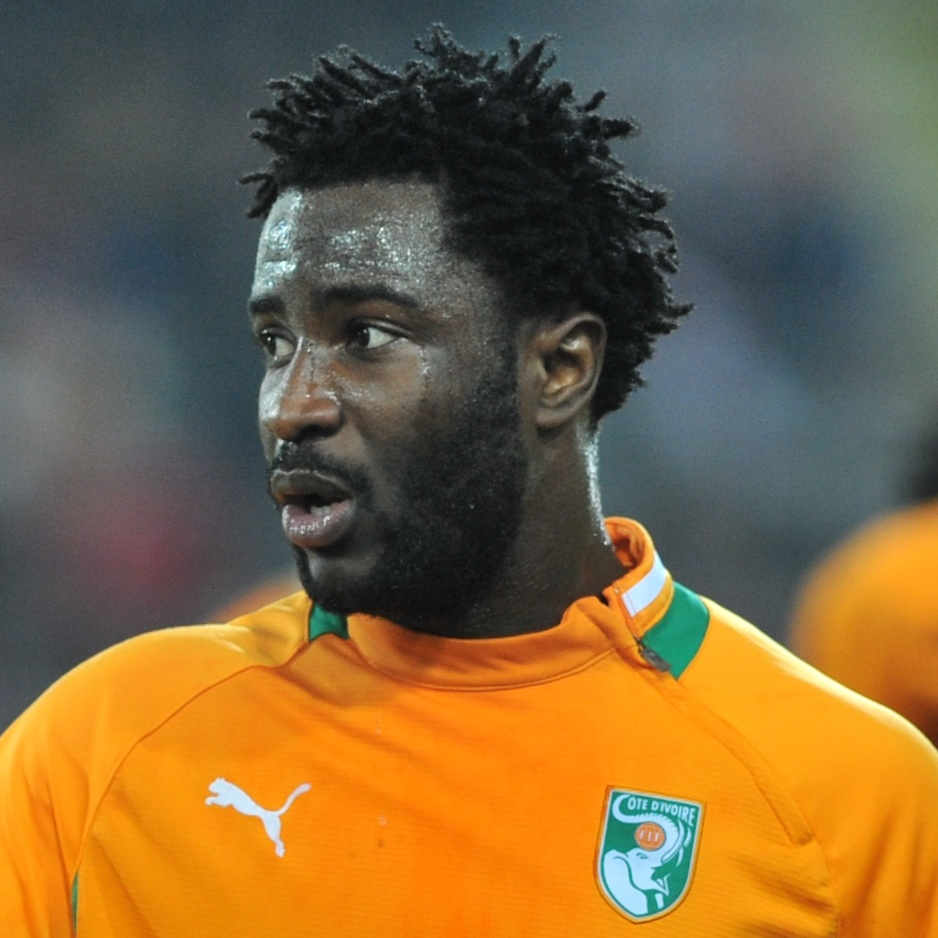 ÖFB freundschaftliches Länderspiel - Österreich vs Elfenbeinküste am 14. November 2012 The making of this work was supported by Wikimedia Austria. For other files made with the support of Wikimedia Austria, please see the category Supported by Wikimedia Österreich. Elfenbeinküste Nr. 12: Wilfried Bony